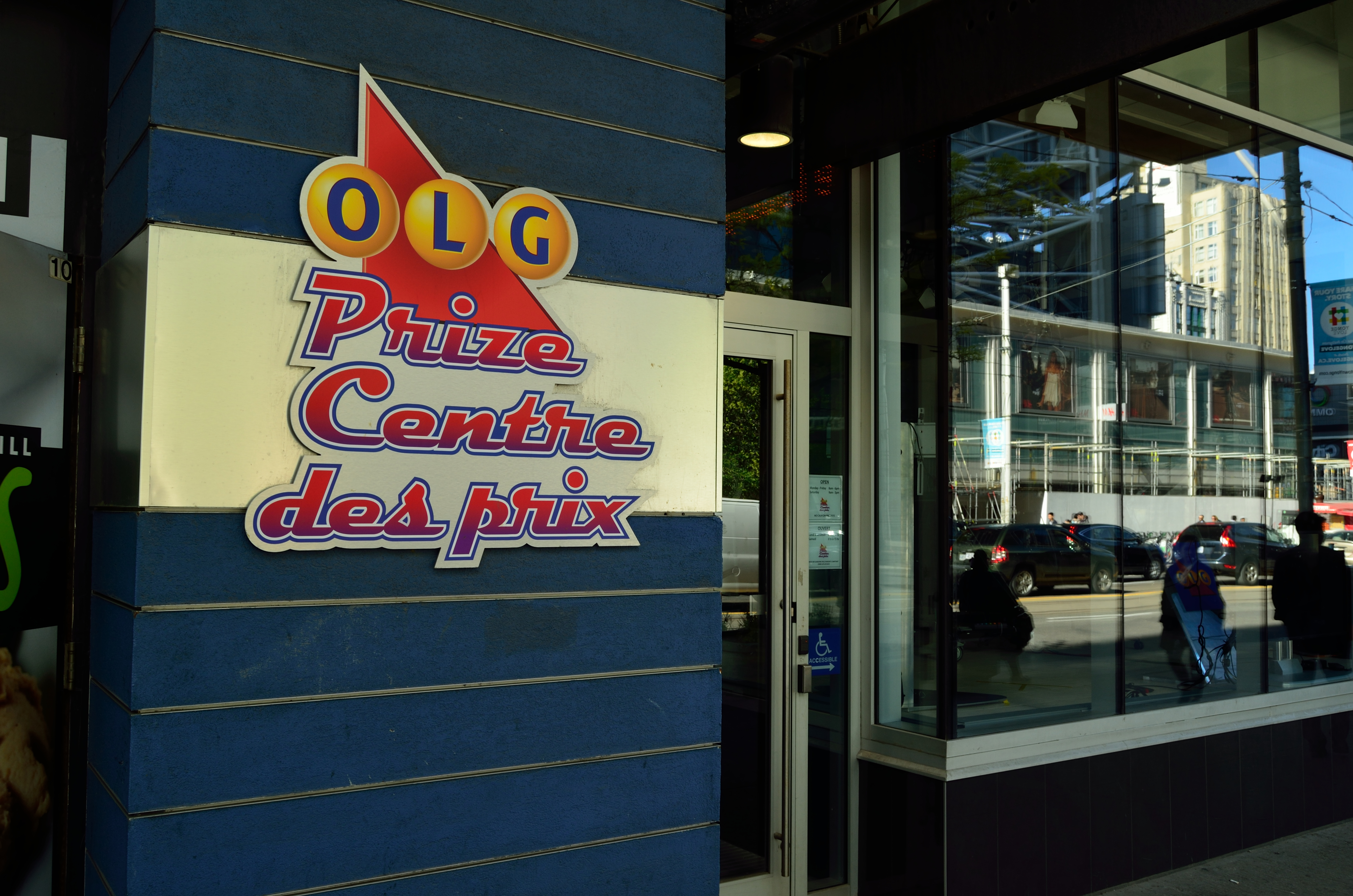 OLG Prize Centre - 20 Dundas St W, Toronto